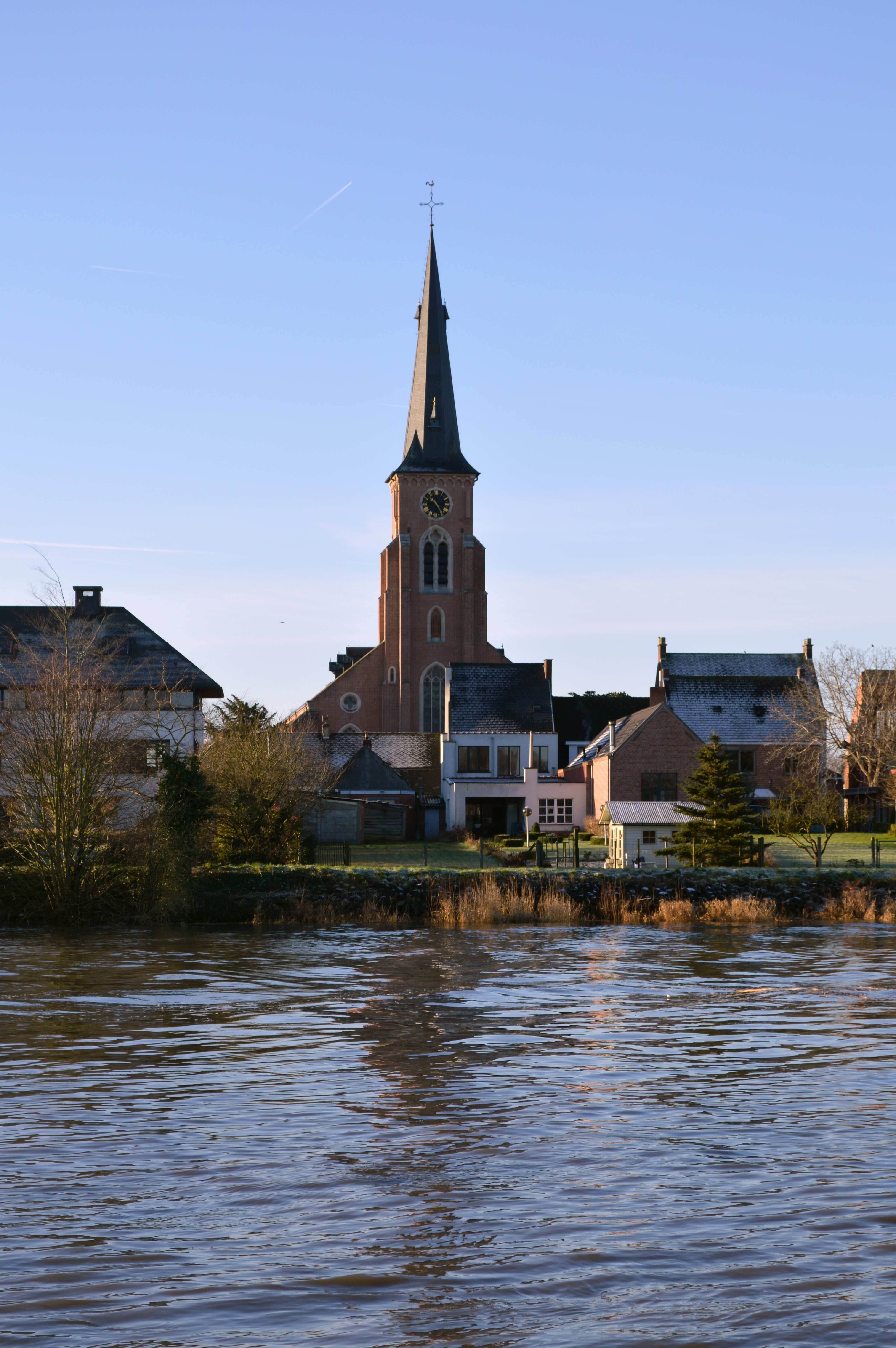 Sint-Gertrudis Church in Wichelen, seen from the opposite side of the Scheldt River.